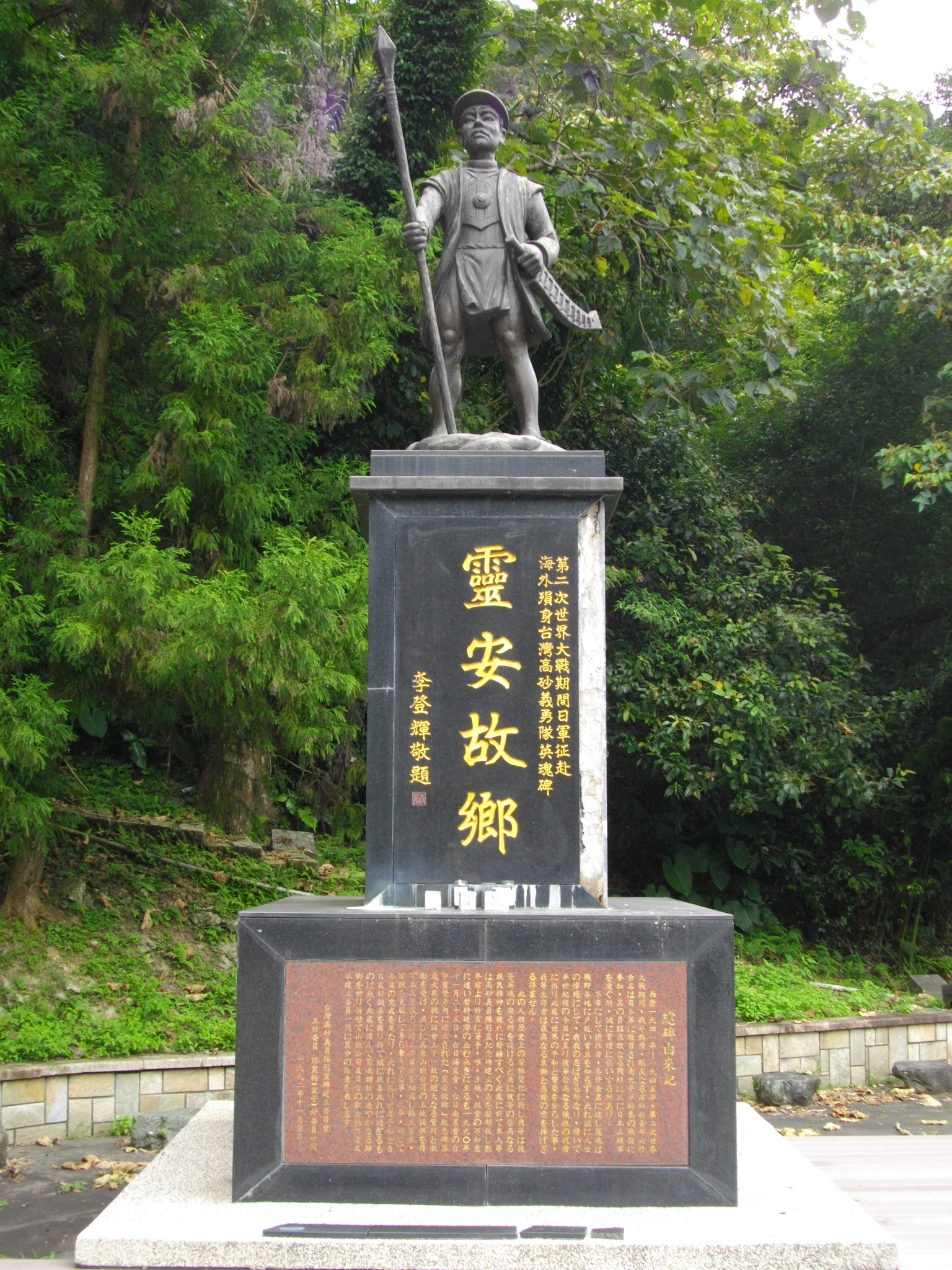 Wulai Takasago Volunteer Corps Memorial Park.中文（台灣）: 烏來高砂義勇隊主題紀念園區慰靈碑，李登輝題字。